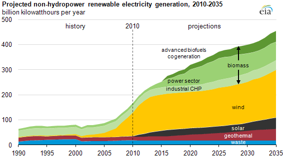 US electricity generation from renewables other than hydroelectricity, historical and projected